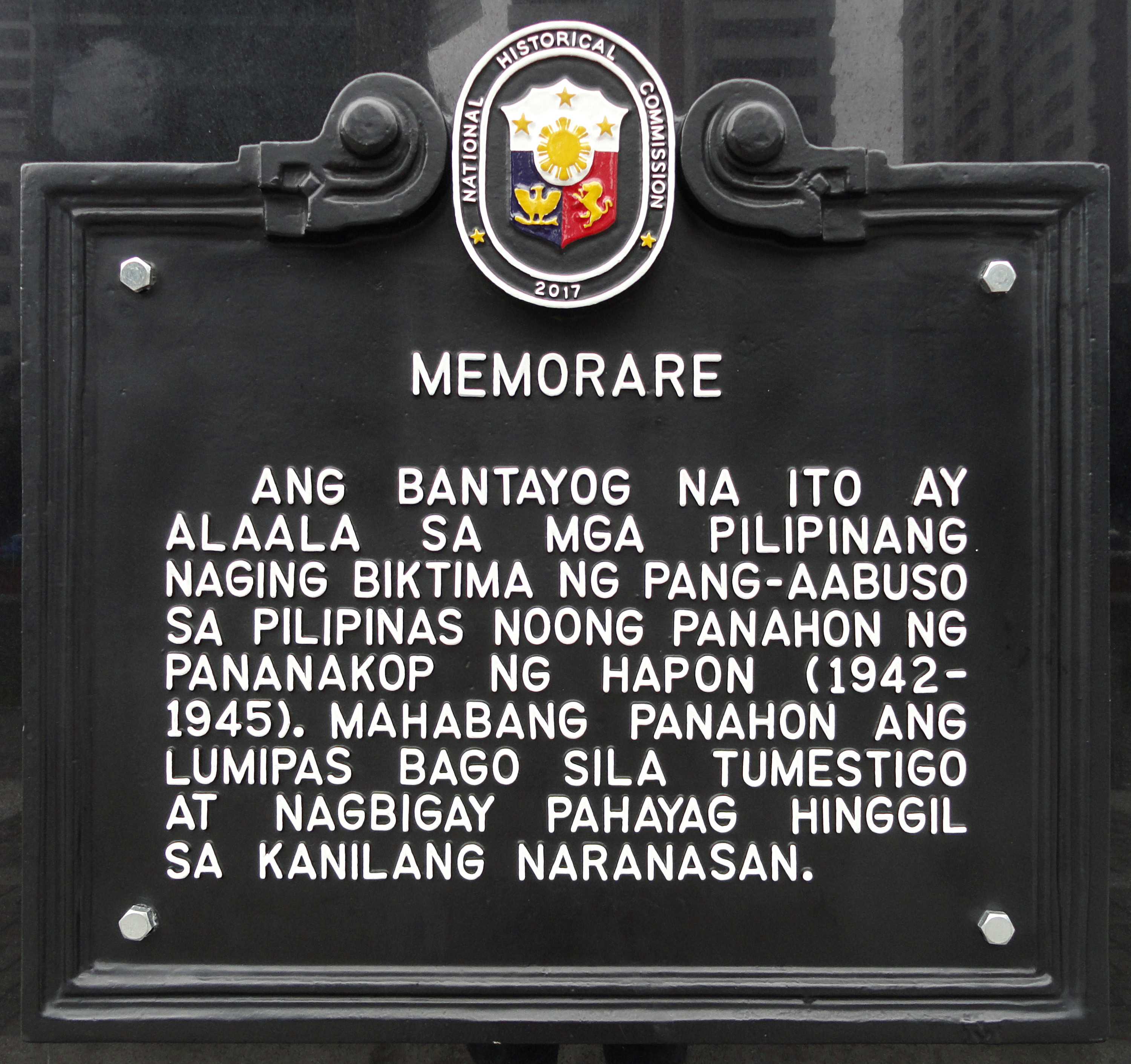 Historical marker installed by the National Historical Commission of the Philippines in honor of the comfort women during World War II.